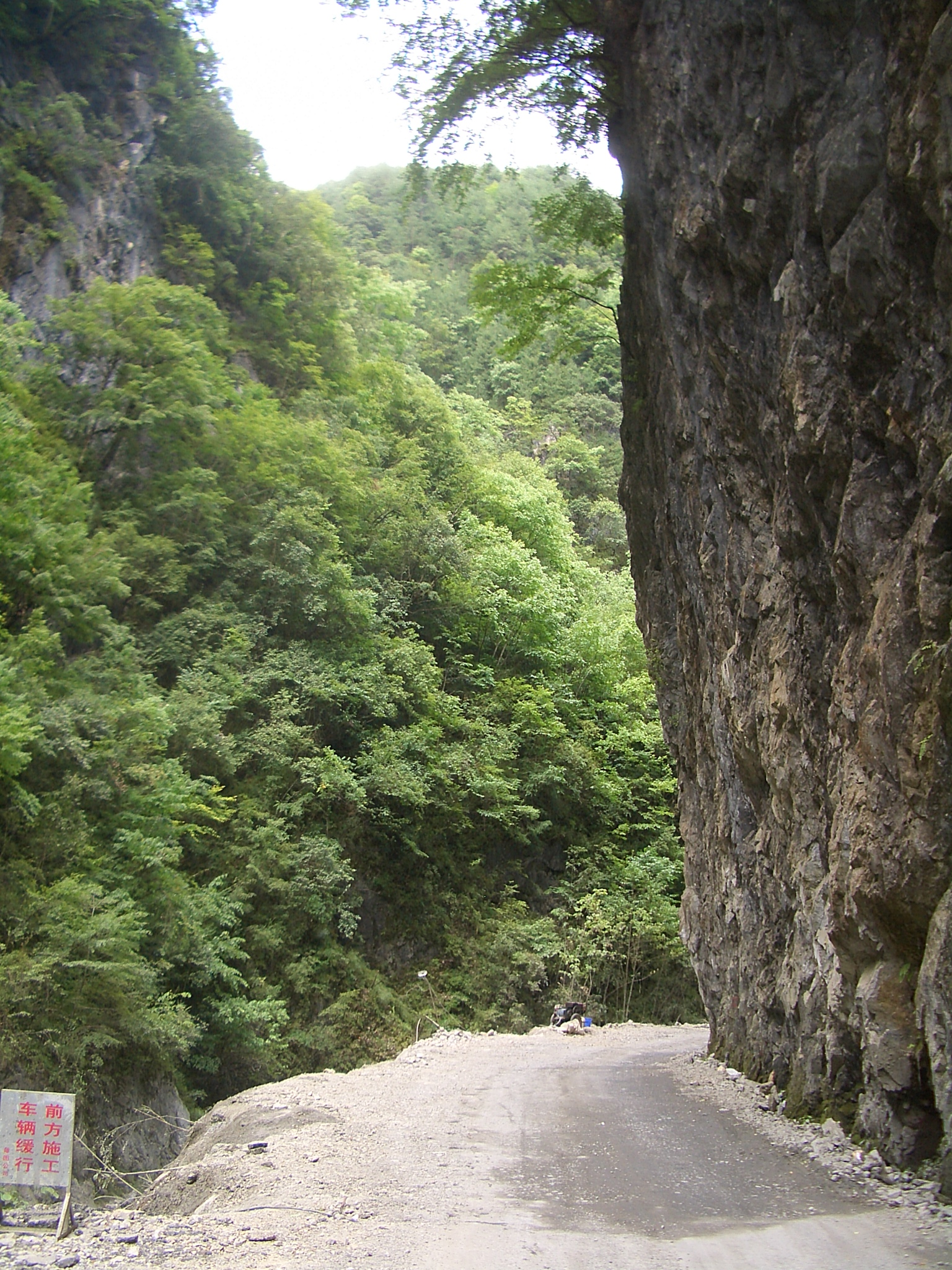 On China National Highway 209 just north of Wenshui village, Hongping town, Shennongjia Forestry District. (Wenshui is a small village located on China National Highway 209 between Yazikou Junction and Hongping Town)